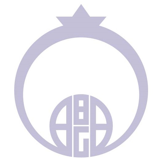 Osato Miyagi chapter